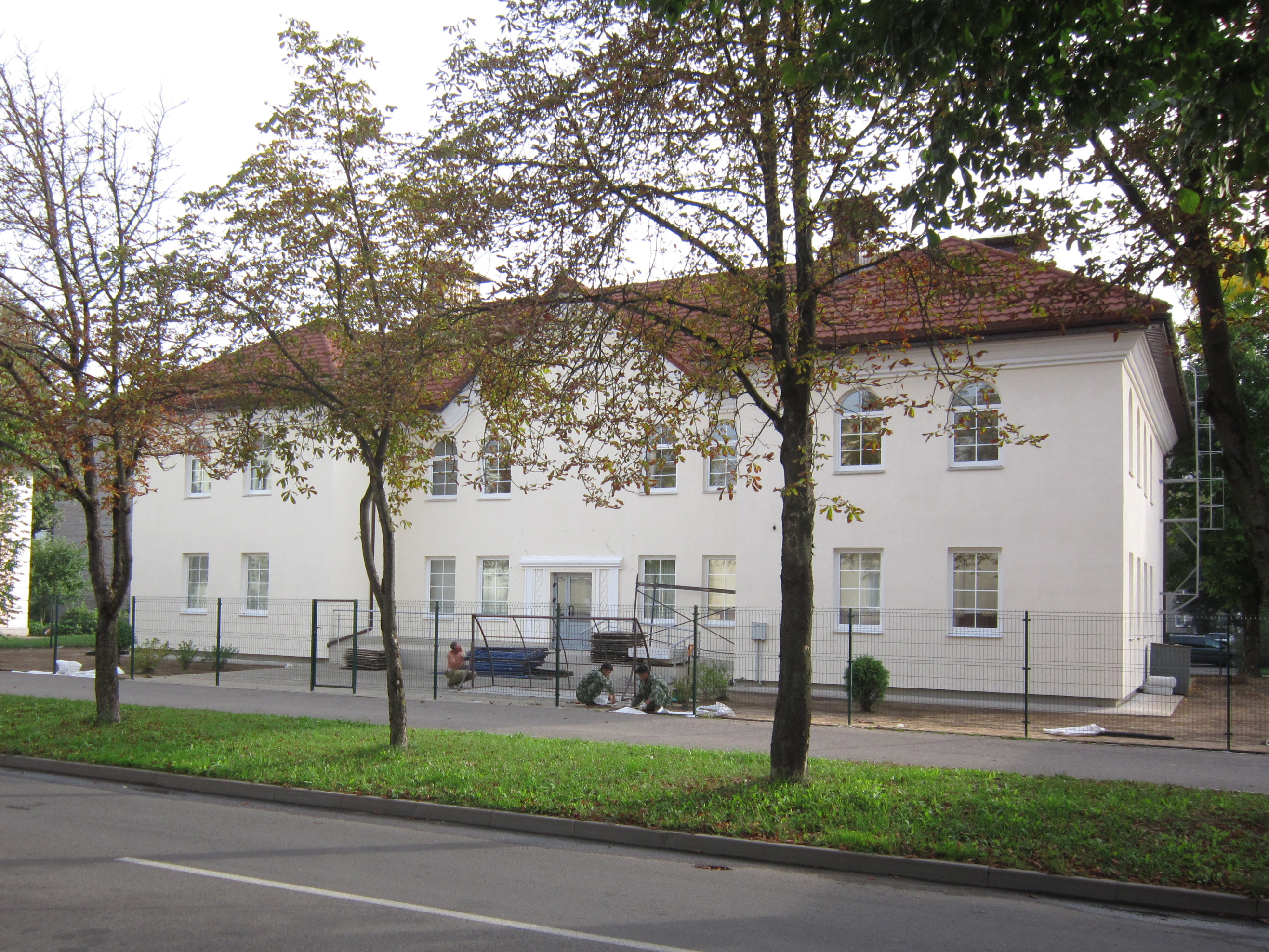 Vielazavodskaja street 8 (Minsk, Belarus). A temple of the Last Day Saints (Mormons) is situated there.